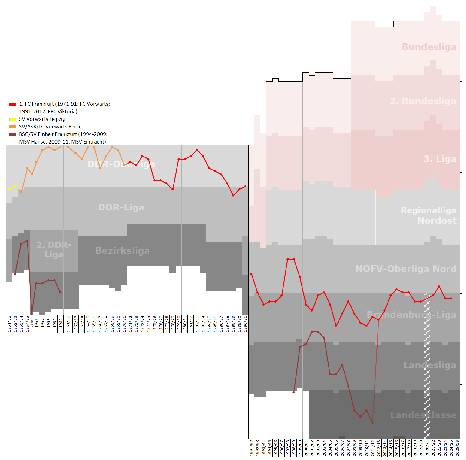 Chart of end-season table positions of 1. FC Frankfurt in the football league system of Germany and GDR. Data source: RSSSF, wikipedia, f-archiv.de, fussball.de